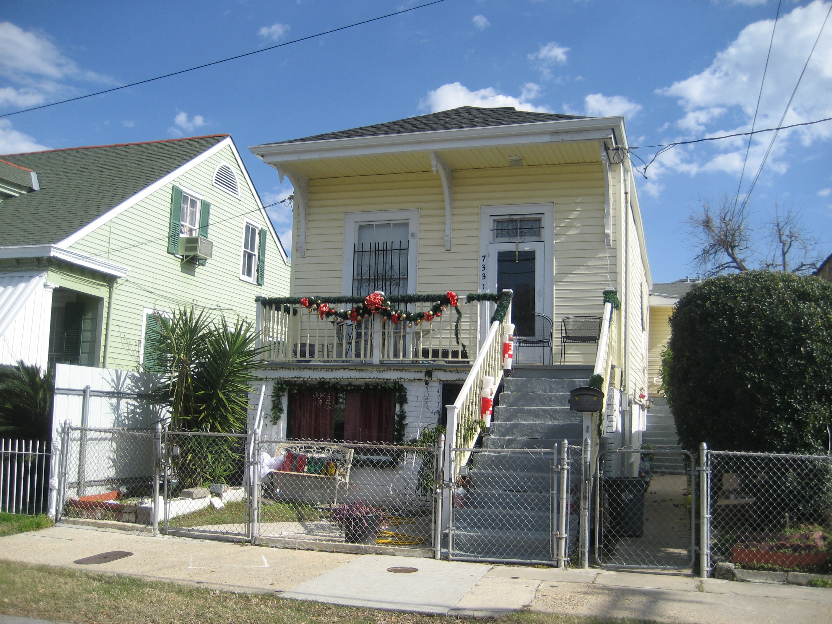 New Orleans: "Raised shotgun" style house on Austerlitz Street.